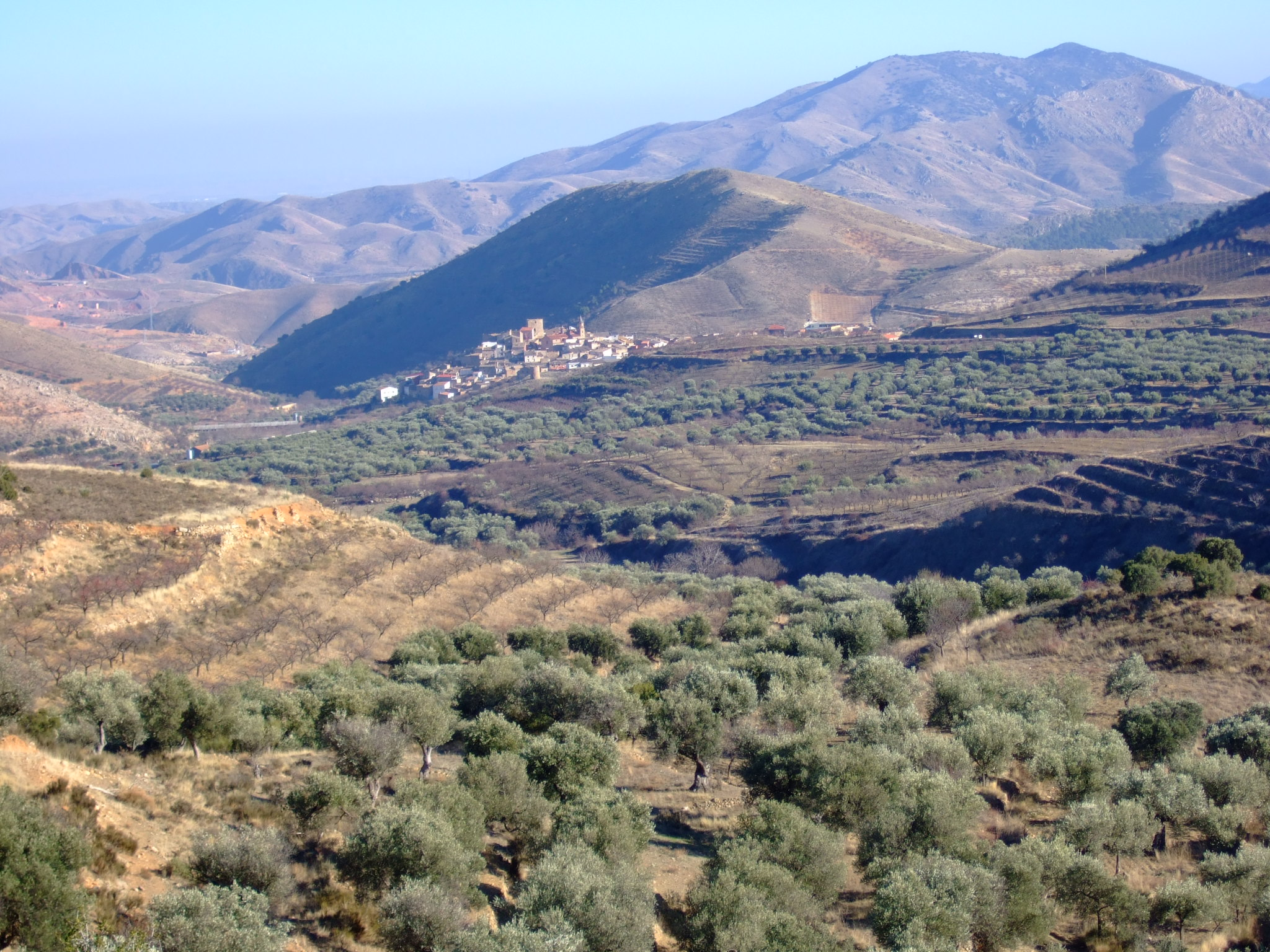 A view of Sestrica from a point roughly 2 km west of the village